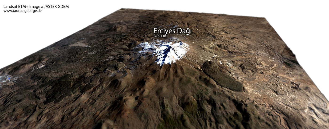 The Erciyes Dağı in 3D